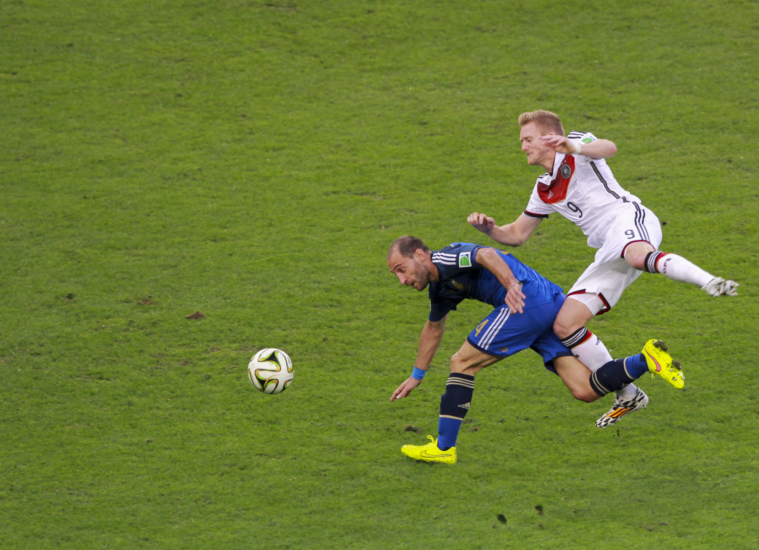 The final match of World Cup 2014 between Germany and Argentina 2014-07-13